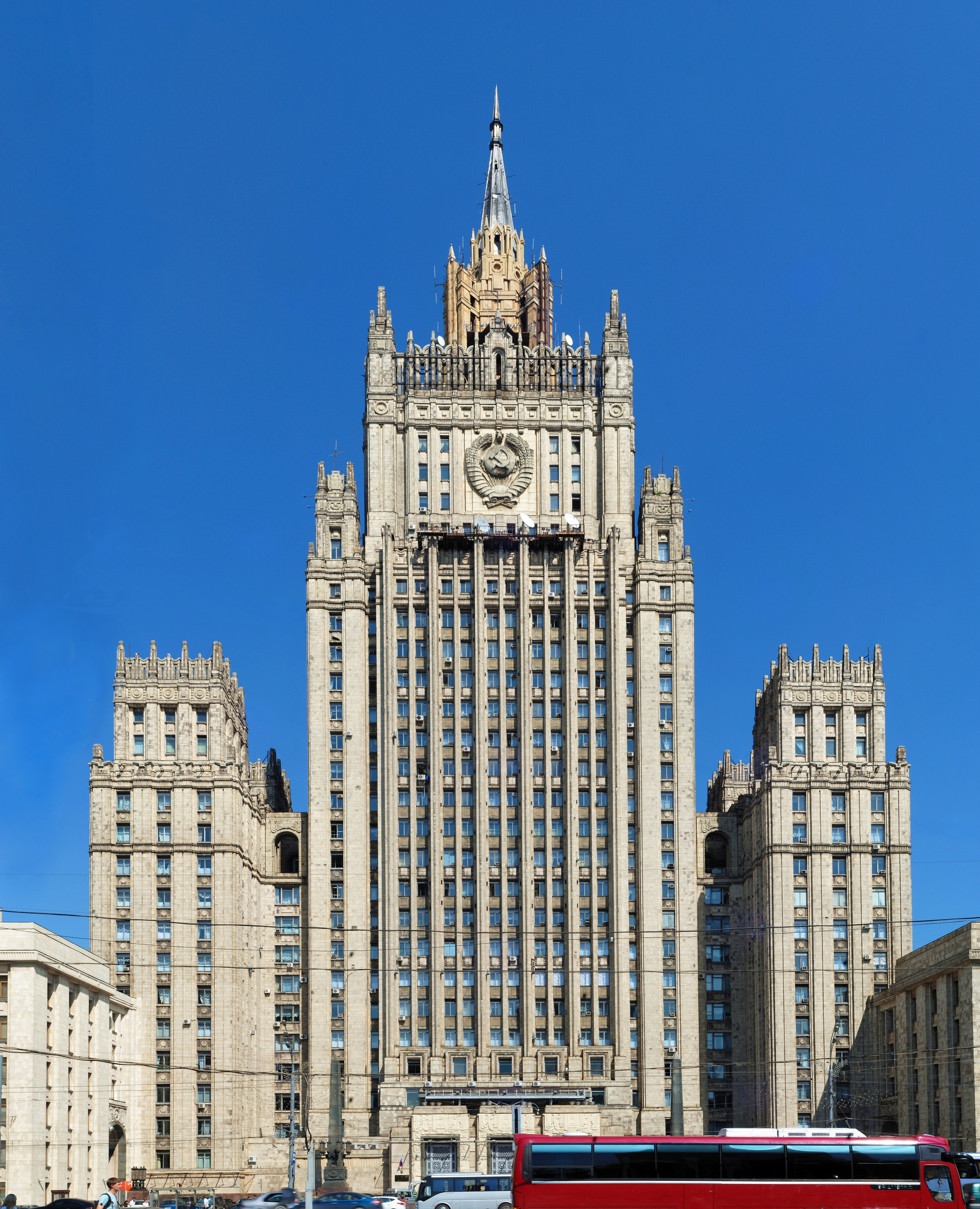 Headquarters of the Ministry of Foreign Affairs of the Russian Federation, Moscow. One of the seven stalinist buildings known as the Seven Sisters.